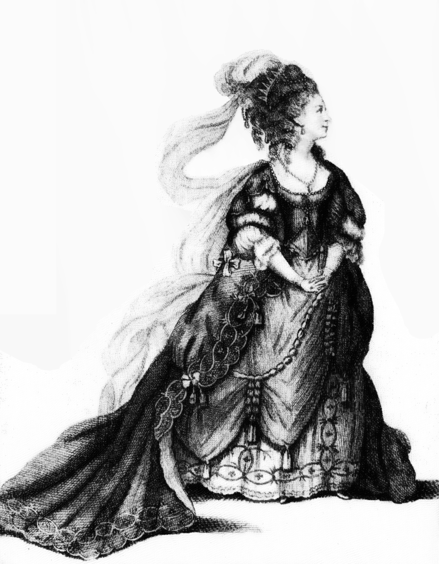 Image of Shakespearean actress Elizabeth Younge, as Cleopatra, in 1772